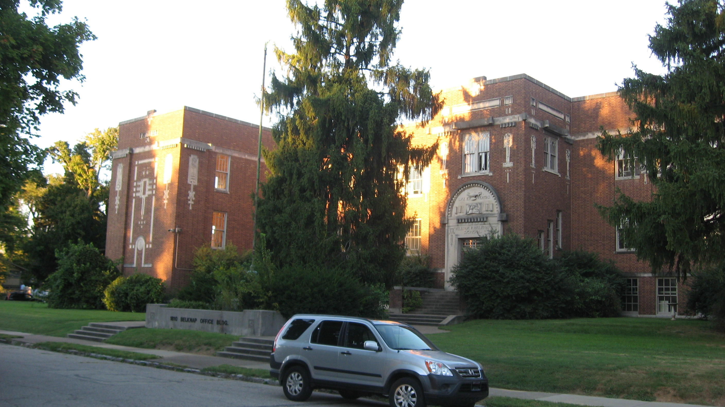 Front of the Willam R. Belknap School, located at 1800 Sils Avenue in Louisville, Kentucky, United States. Built in 1916, it is listed on the National Register of Historic Places.